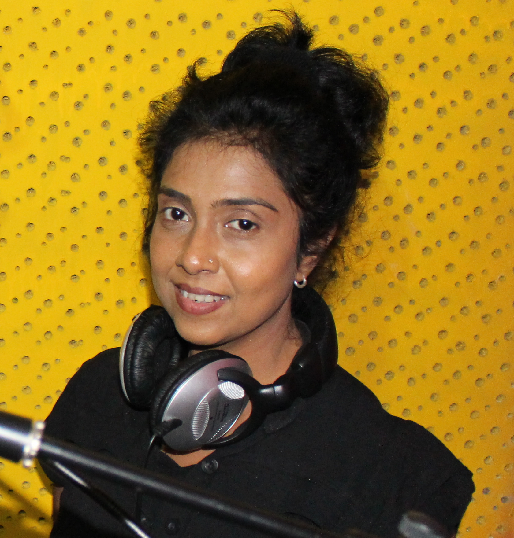 Champa Kalhari at a Song Recording